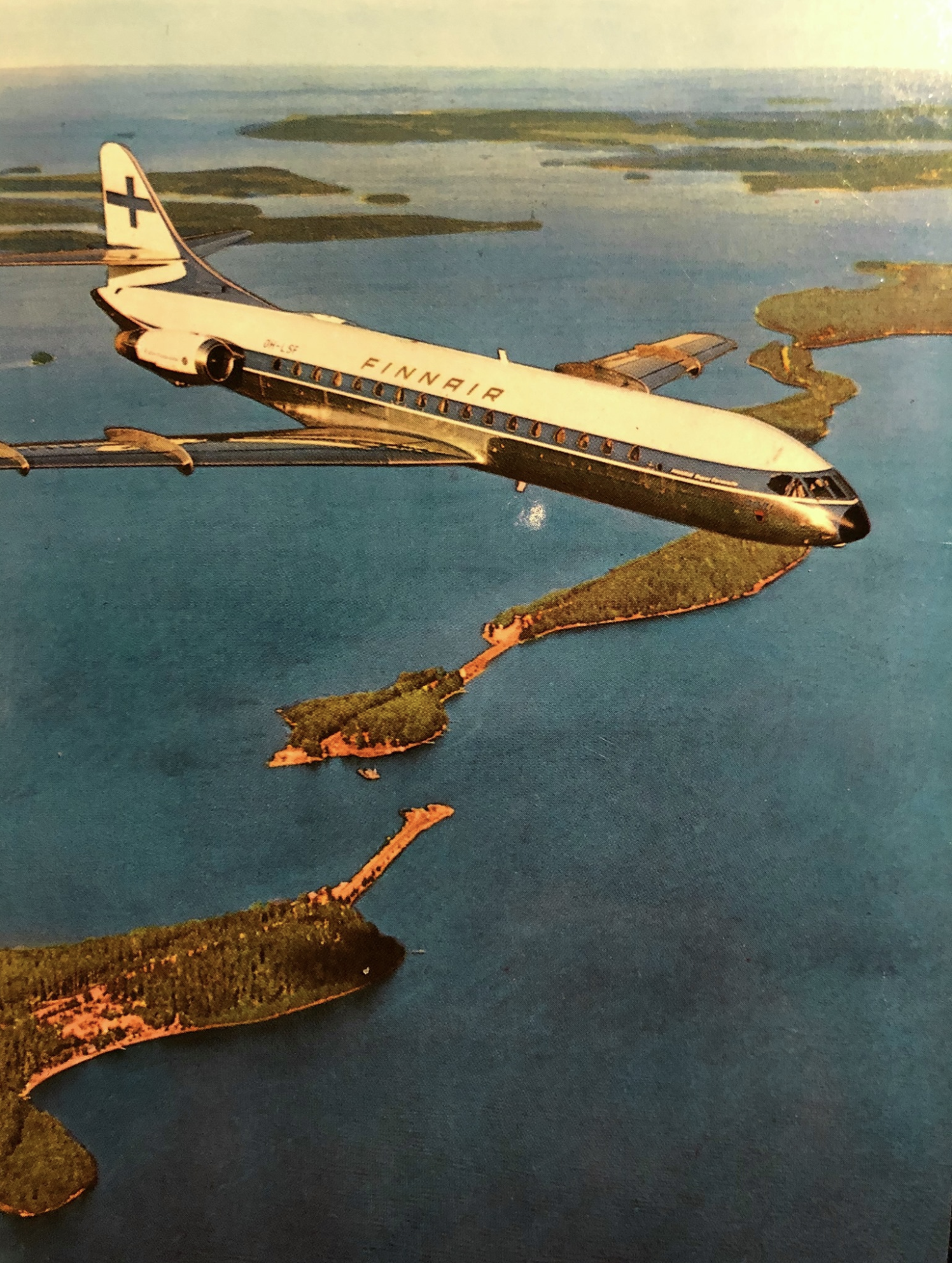 Sud SE-210 Caravelle 10B3 aircraft (Super Caravelle) OH-LSF and the Pulkkilanharju esker after 1964 but prior to 1967